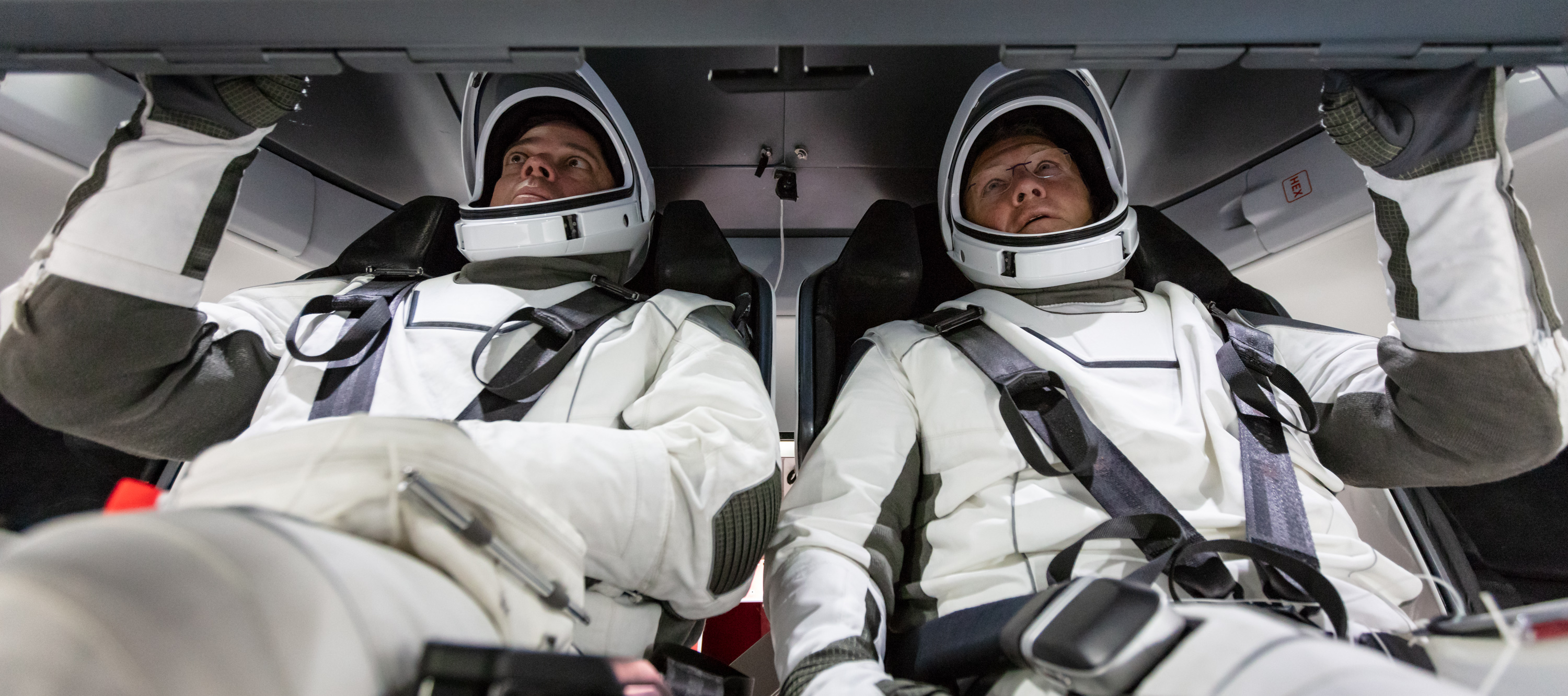 NASA astronauts Doug Hurley and Bob Behnken familiarize themselves with SpaceX’s Crew Dragon, the spacecraft that will transport them to the International Space Station as part of NASA’s Commercial Crew Program. Their upcoming flight test is known as Demo-2, short for Demonstration Mission 2. The Crew Dragon will launch on SpaceX’s Falcon 9 rocket from Launch Complex 39A at NASA’s Kennedy Space Center in Florida.